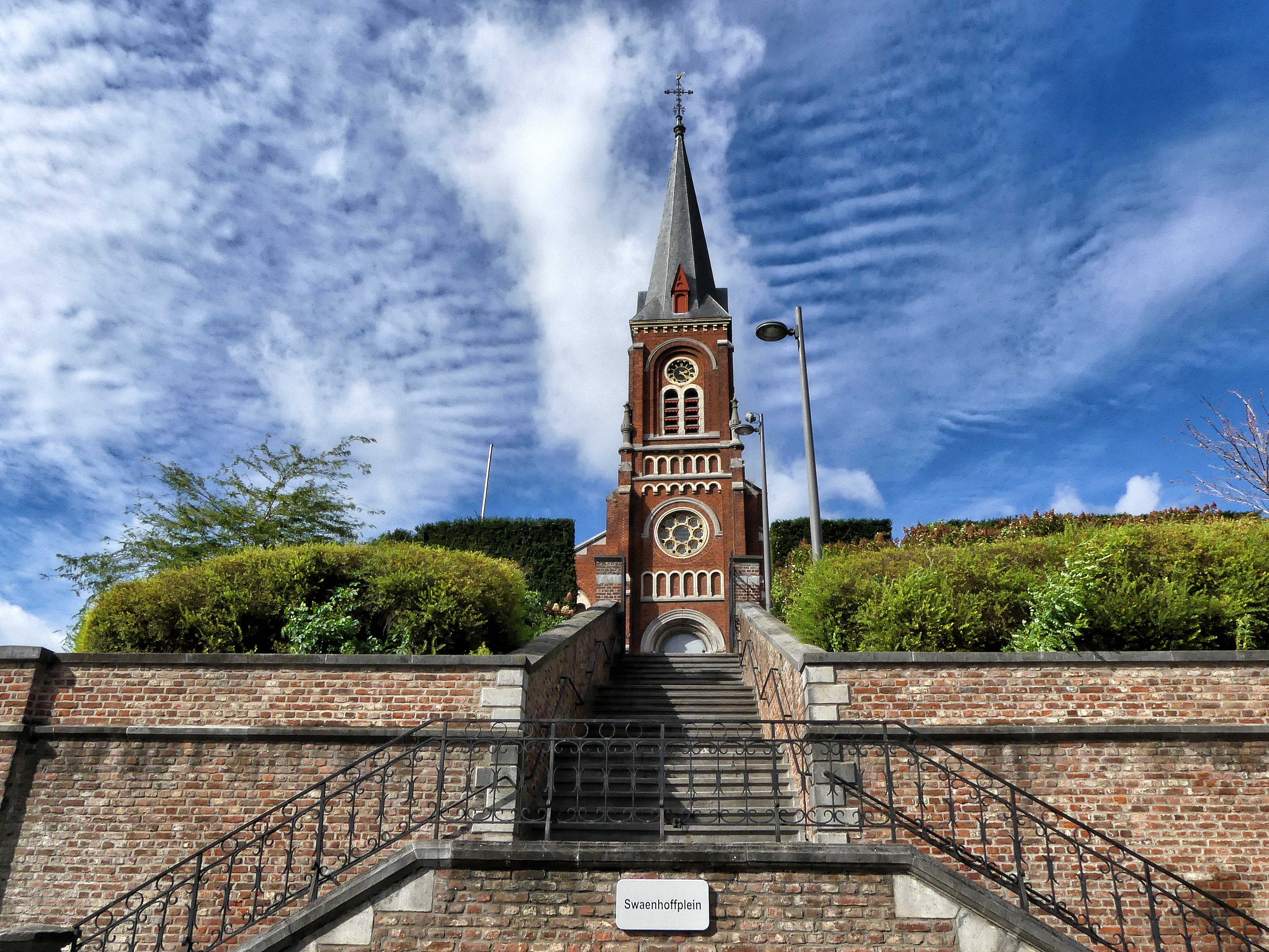 Church of Saint Martin in Groot-Gelmen